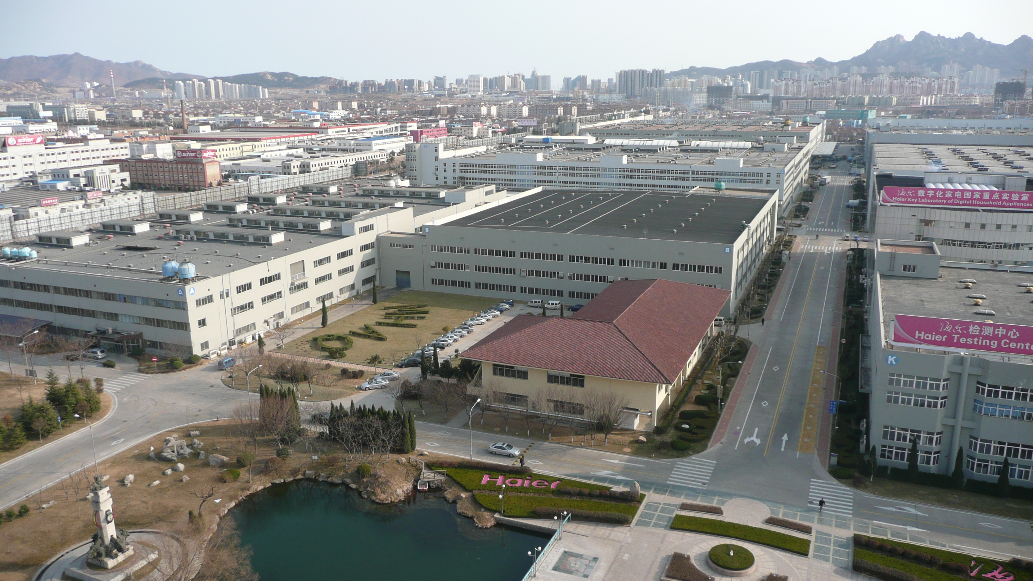 Haier Industrial Park in Qingdao